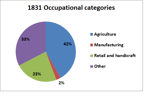 A pie chart showing Occupational Categories of Bridekirk in 1831.